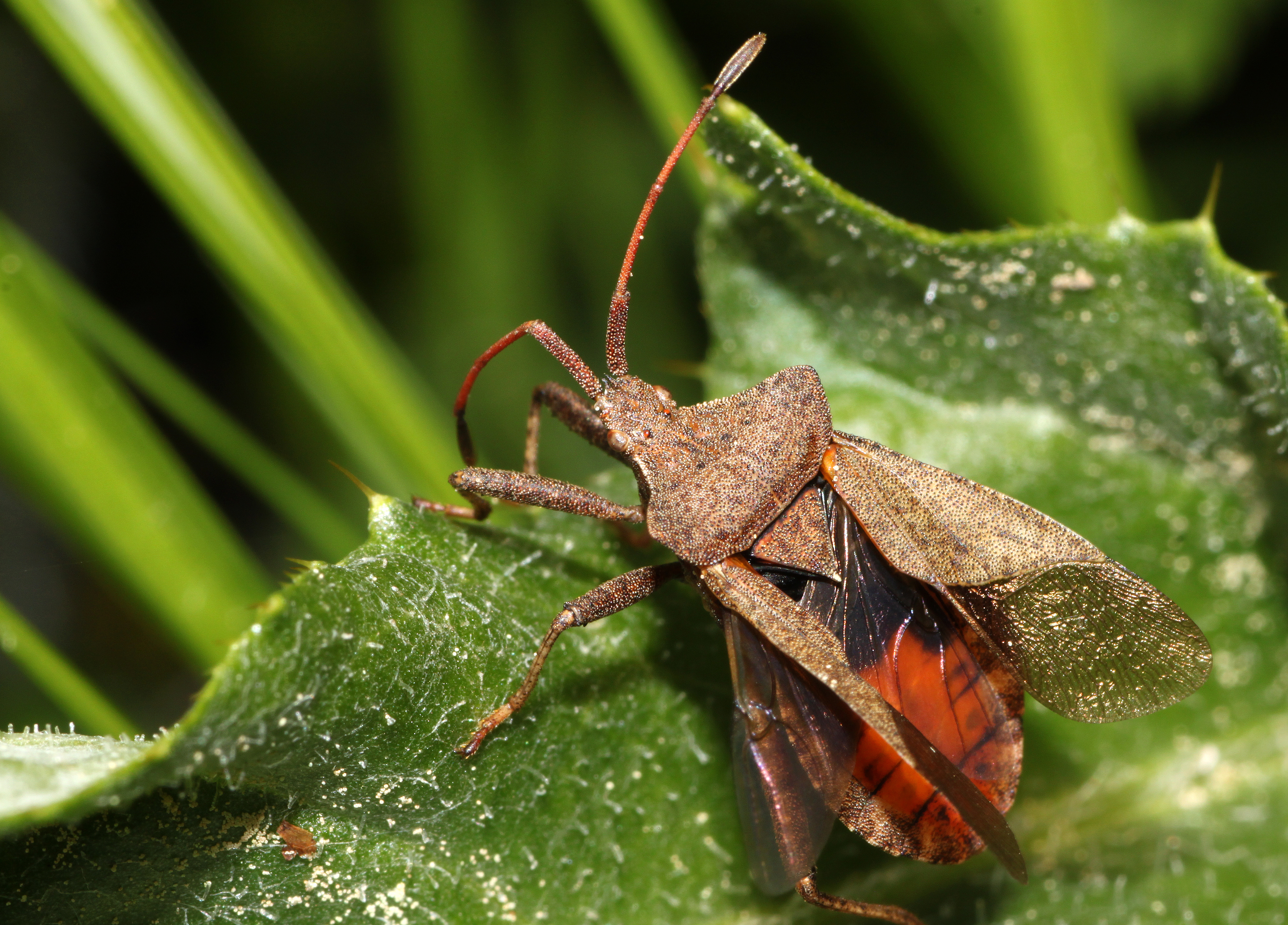 Dock bug (preparing to fly), Coreus marginatus, Family: Coreidae, Location: Southern Germany, Bihlafingen